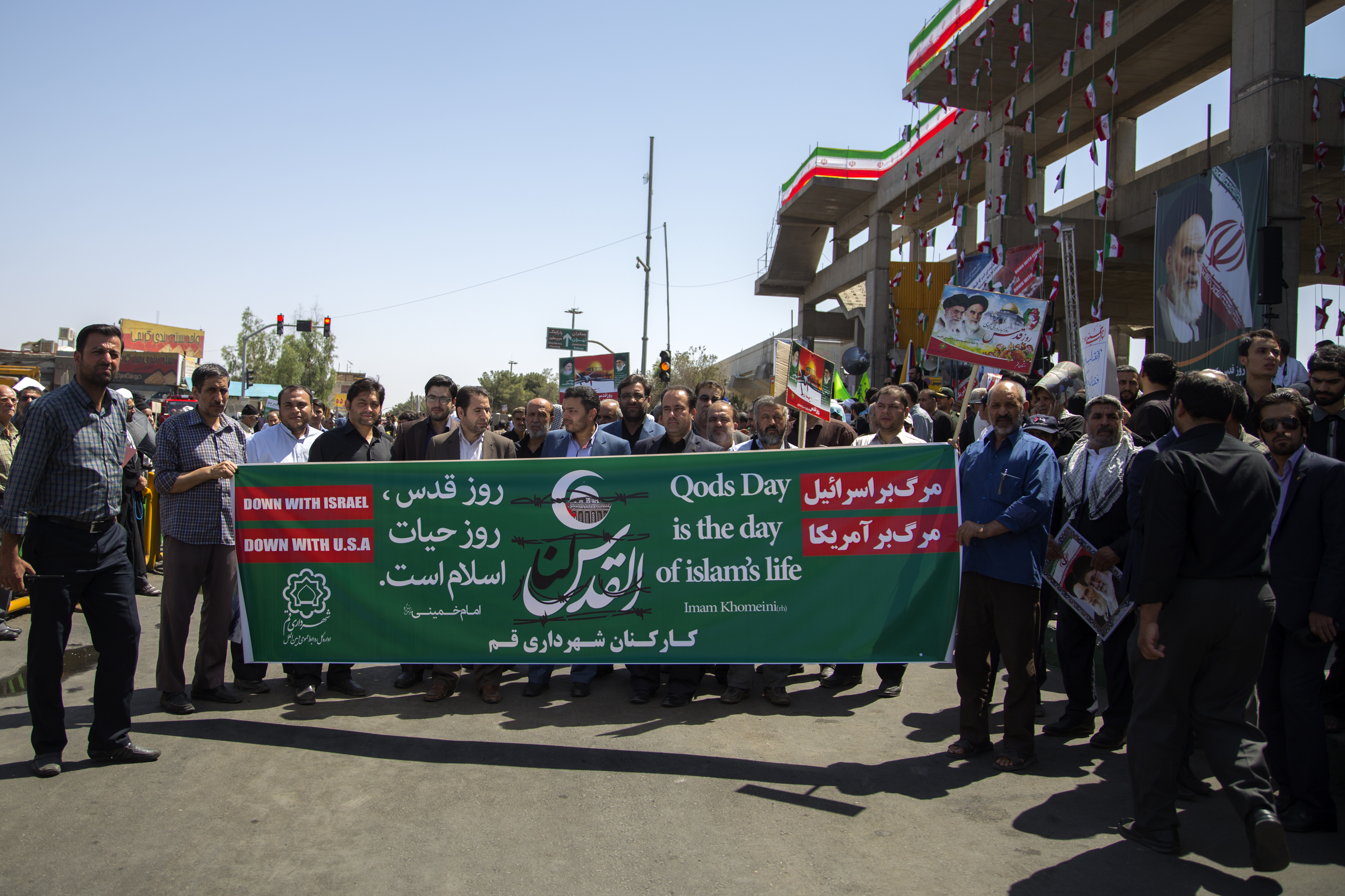 Quds Day officially called International Quds Day is an annual event held on the last Friday of Ramadan that was initiated by the Islamic Republic of Iran in 1979 to express support for the Palestinians and oppose Zionism and Israel, as well as Israel's occupation of Jerusalem and Jewish settlements in Israeli-occupied territories .